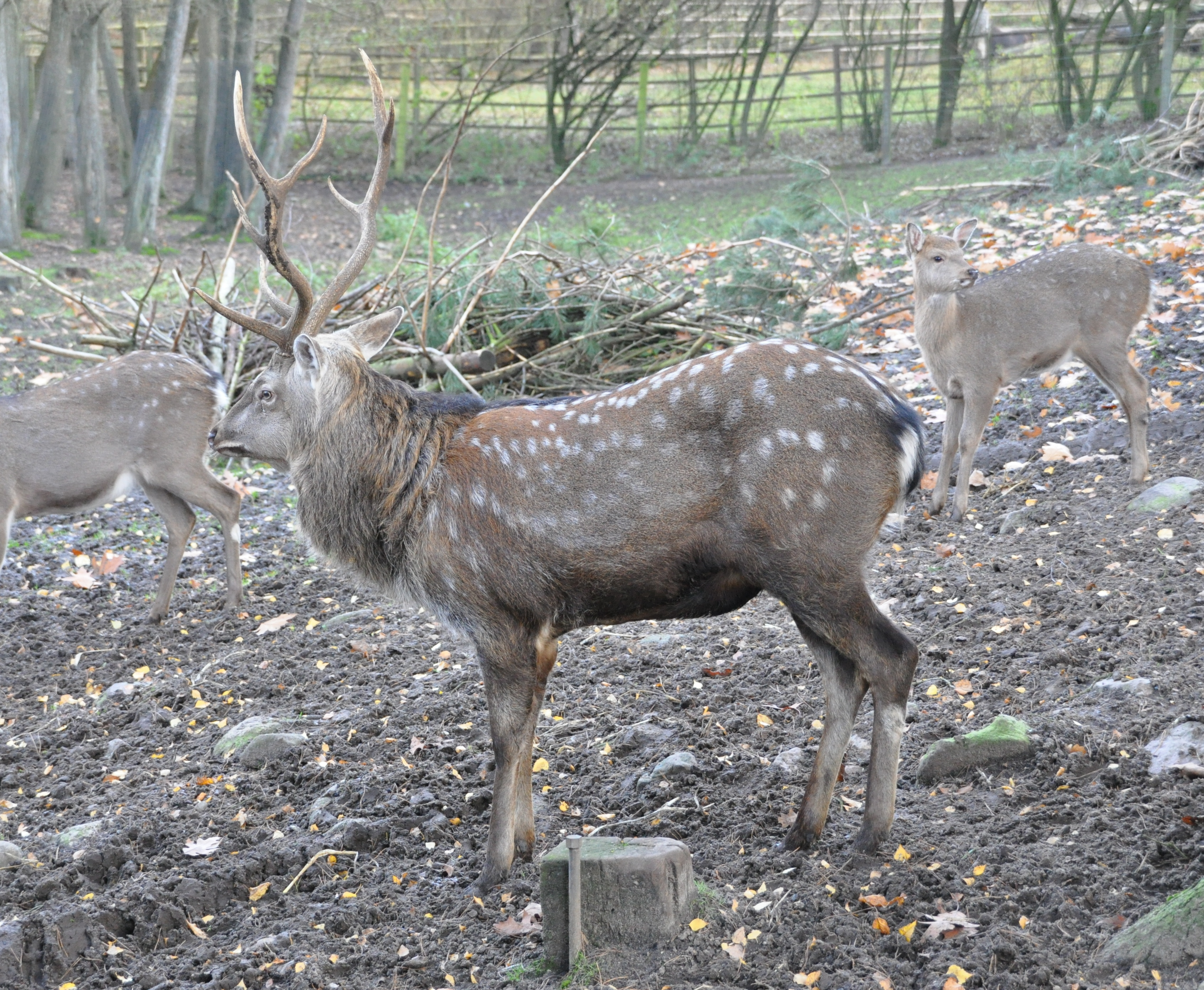 Dybowski's Sika Deer (Cervus nippon hortulorum) in the Lüneburg Heath wildlife park, Germany.